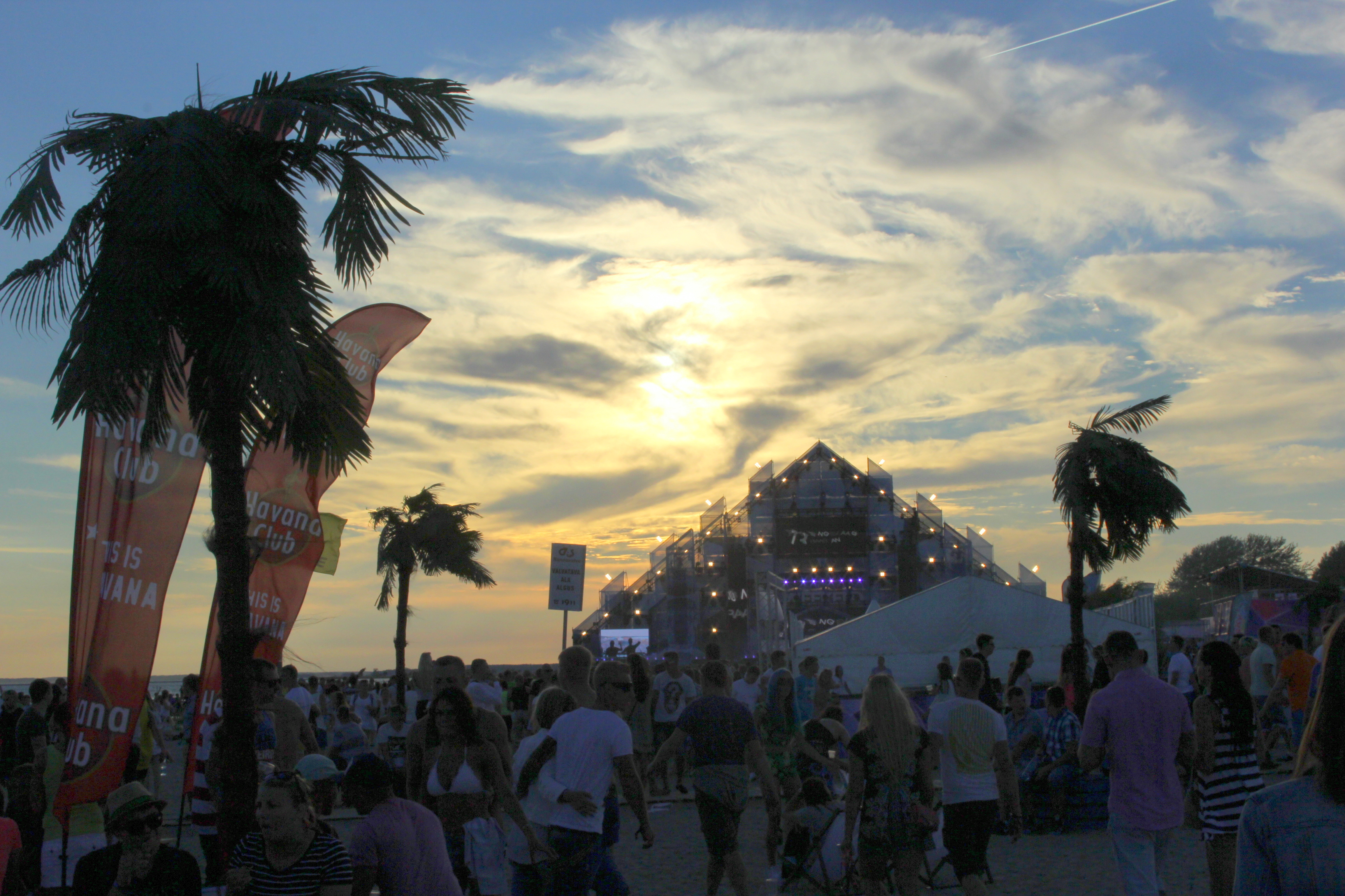 Pärnu. Weekend baltic festival